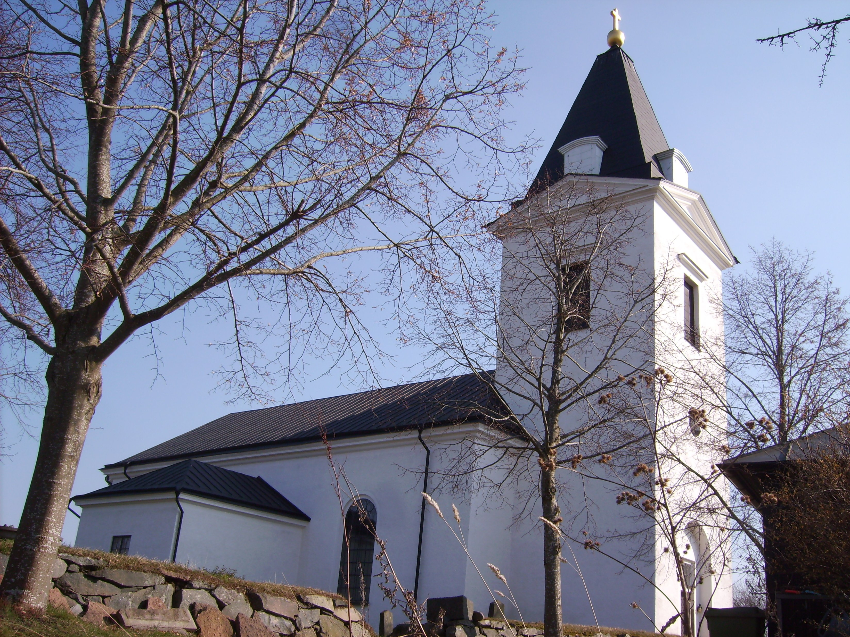 The church in Konungsund, Norrköping, Sweden. The church of today was built 1801-1802, over a medieval church place from 1300th century.